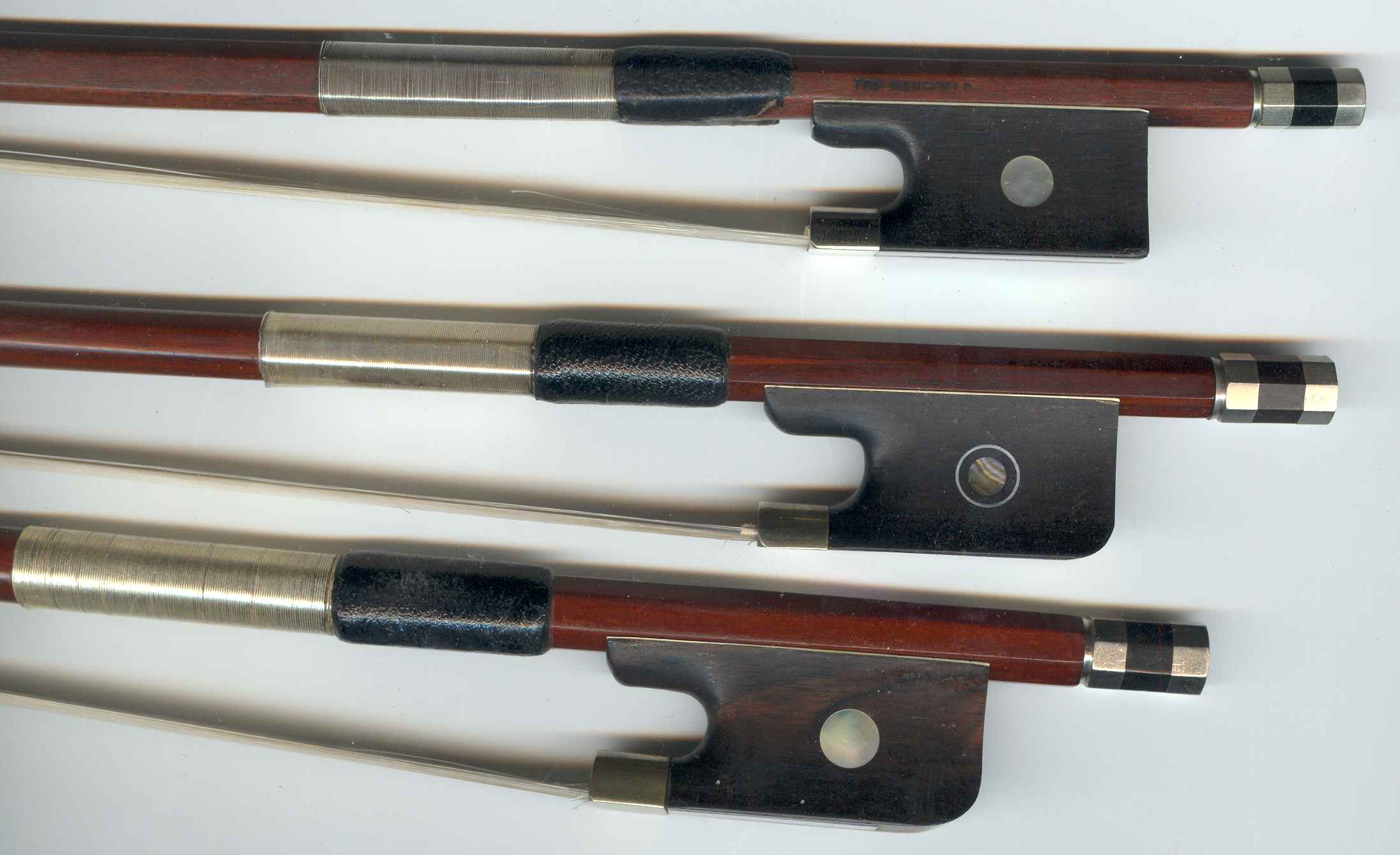 scanned Just plain Bill 03:00, 26 January 2006 (UTC) Top to bottom: violin, viola, cello